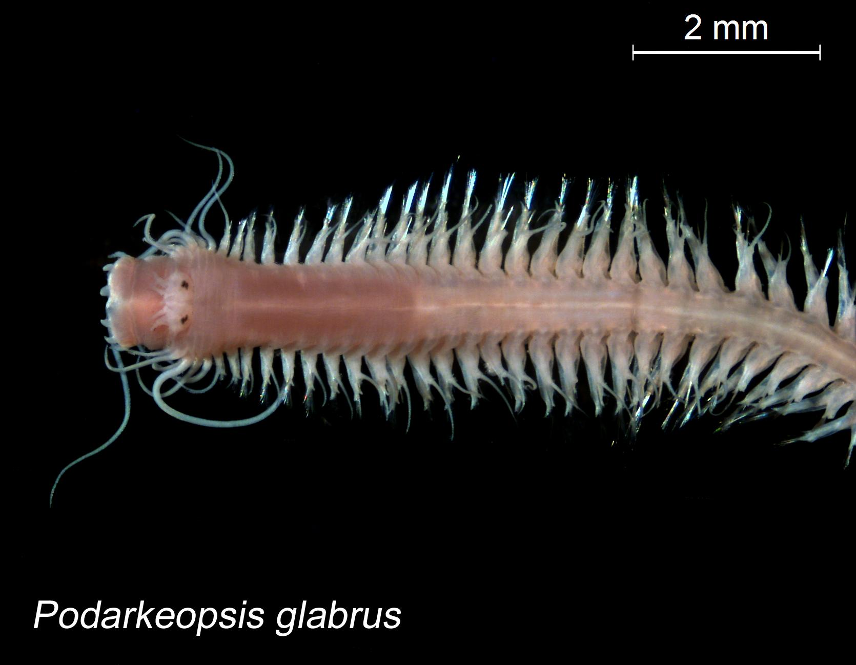 Collected from Puget Sound sediments and photographed by the Washington State Department of Ecology’s Marine Sediment Monitoring Team. For more information about this team’s work visit